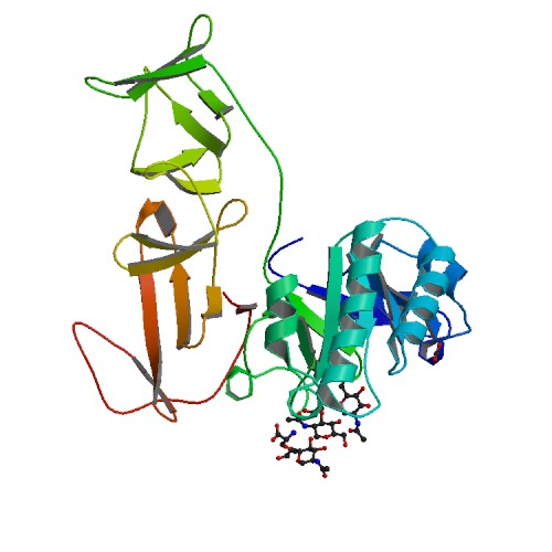 Ribbon diagram of modular pneumococcal phage endolysin CPL-1. Structure 2J8G (Protein Data Bank).